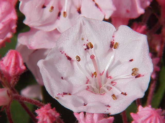 Species: Kalmia latifolia Family: Ericaceae Image No. 2